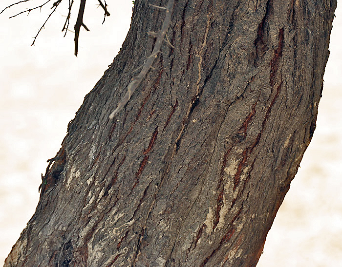 Babool Acacia nilotica at Hodal in Faridabad District of Haryana, India.